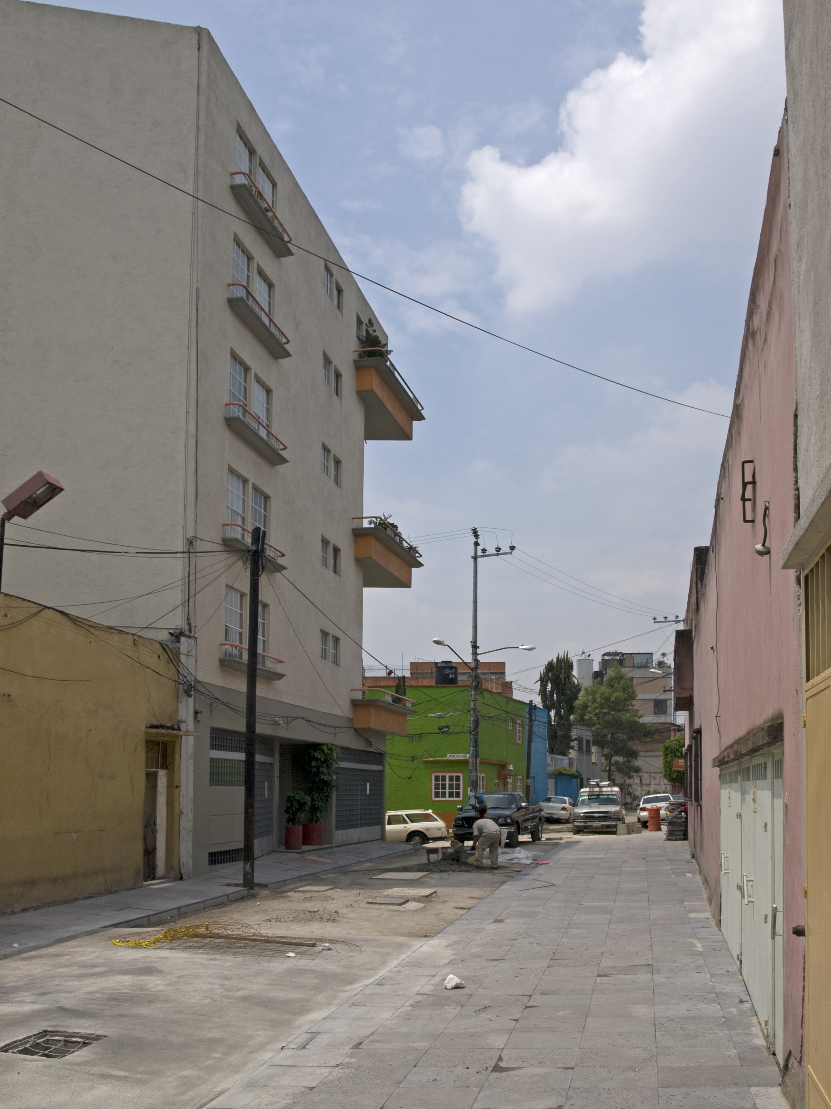 General Francisco Ramirez Street, Tacubaya, Mexico City